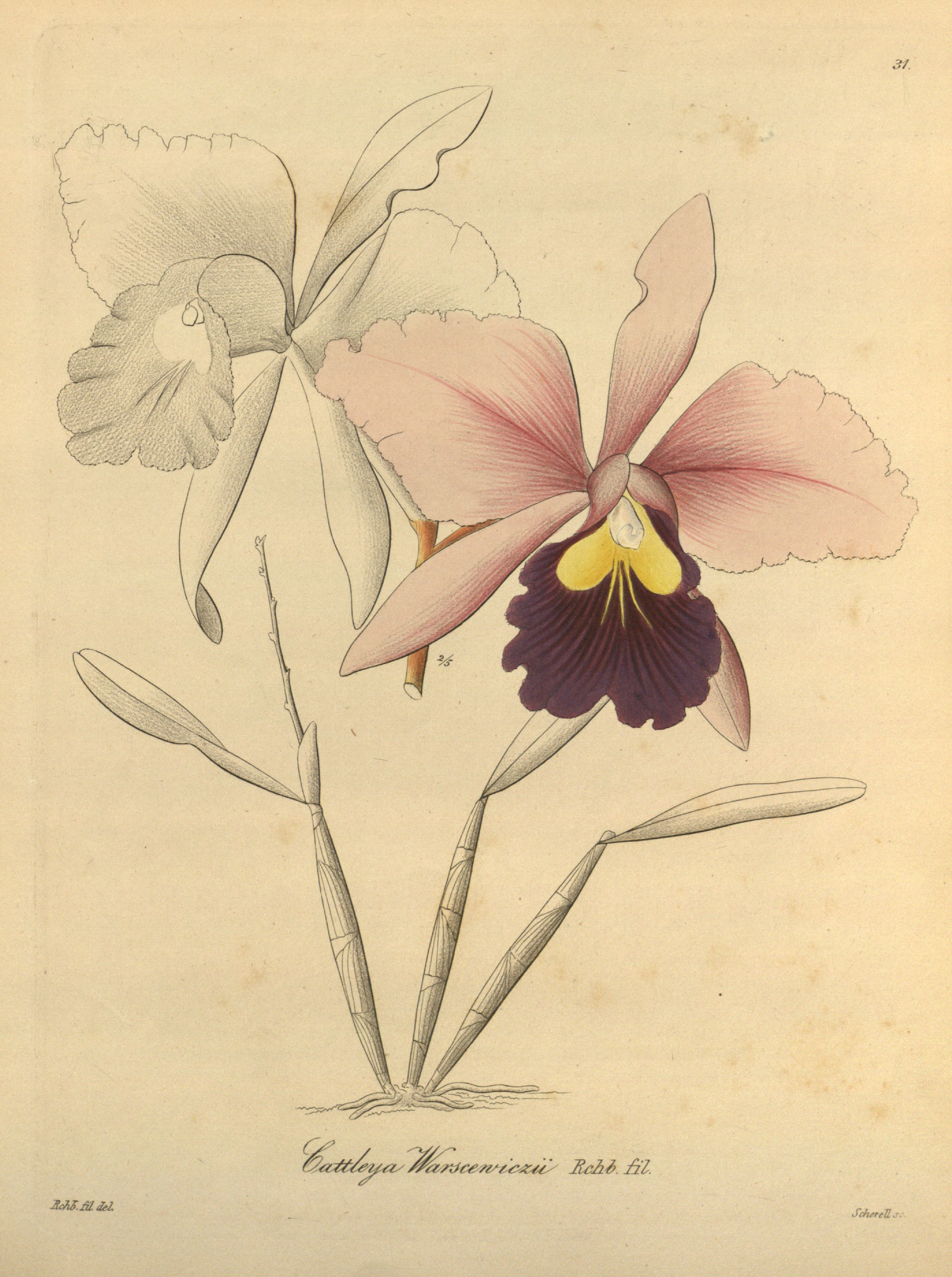 Illustration of Cattleya warscewiczii